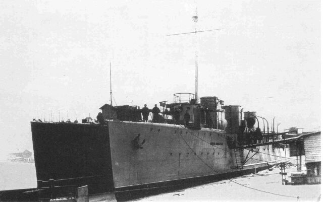 Imperial Russian destroyers Kapitan Izyl'met'ev and Kapitan Kinsbergen.